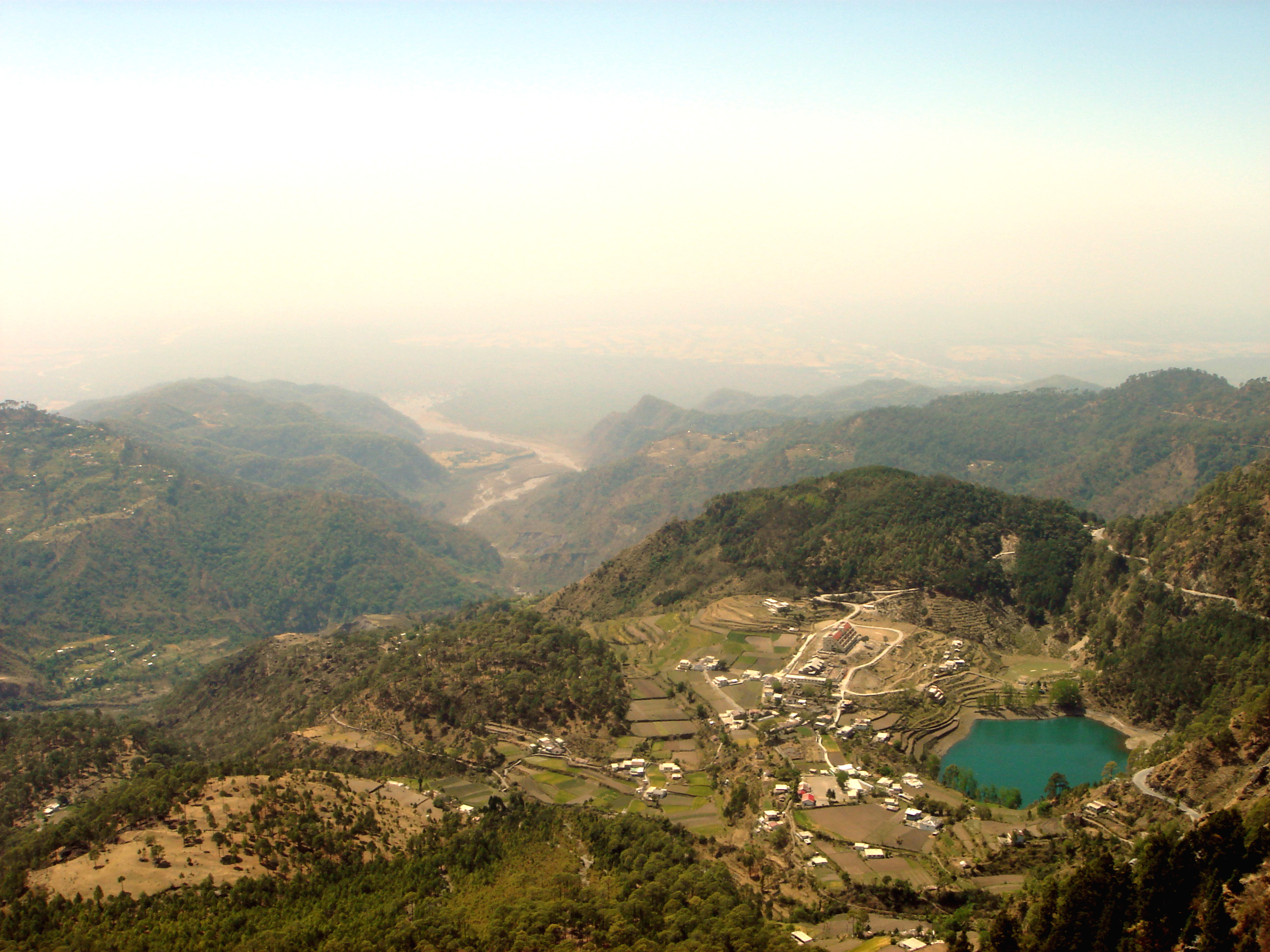 Khurpal Tal from Landsend, Nainital.